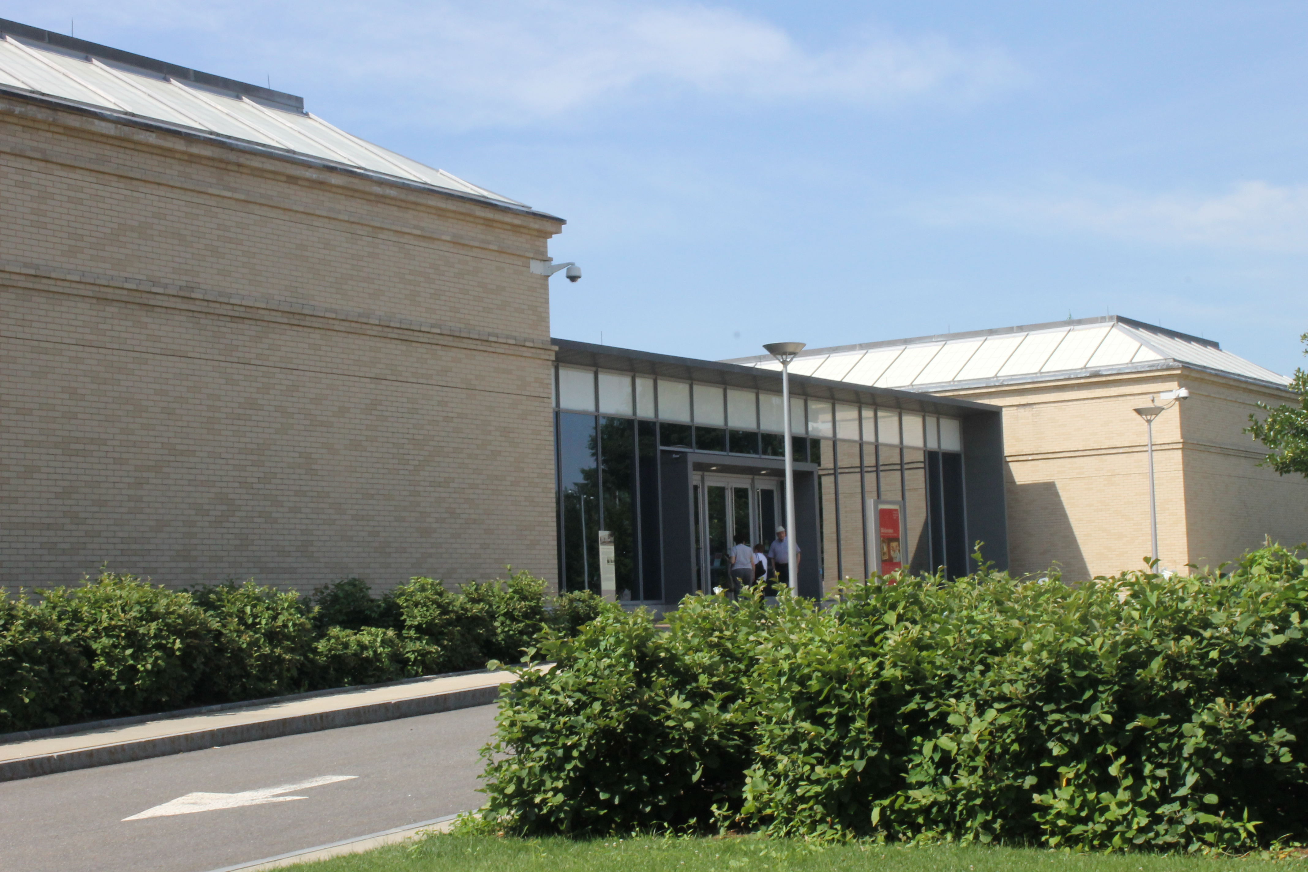 I took photo with Canon camera of Currier Art Museum at 192 Orange St. in Manchester, NH.